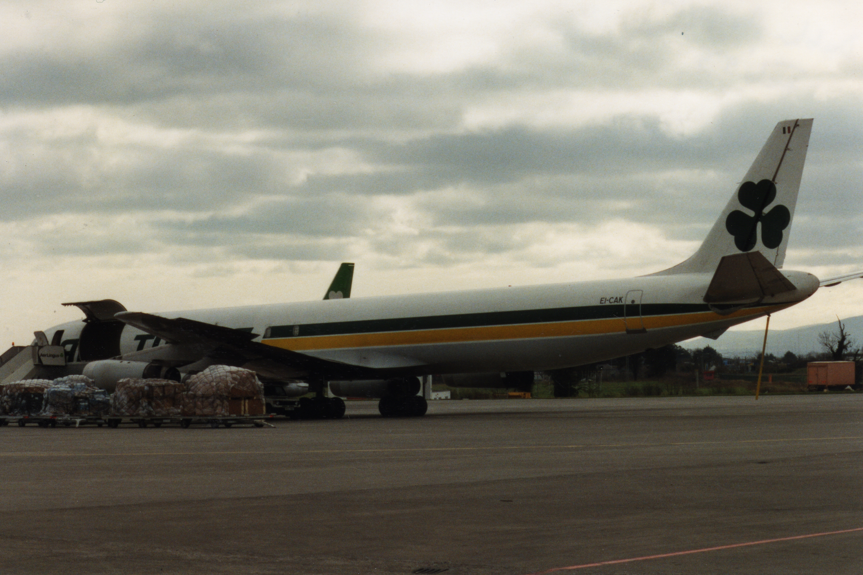 Aer Turas (EI-CAK) Douglas DC-8-63F aircraft, Dublin Airport, Dublin, Republic of Ireland, February 1993